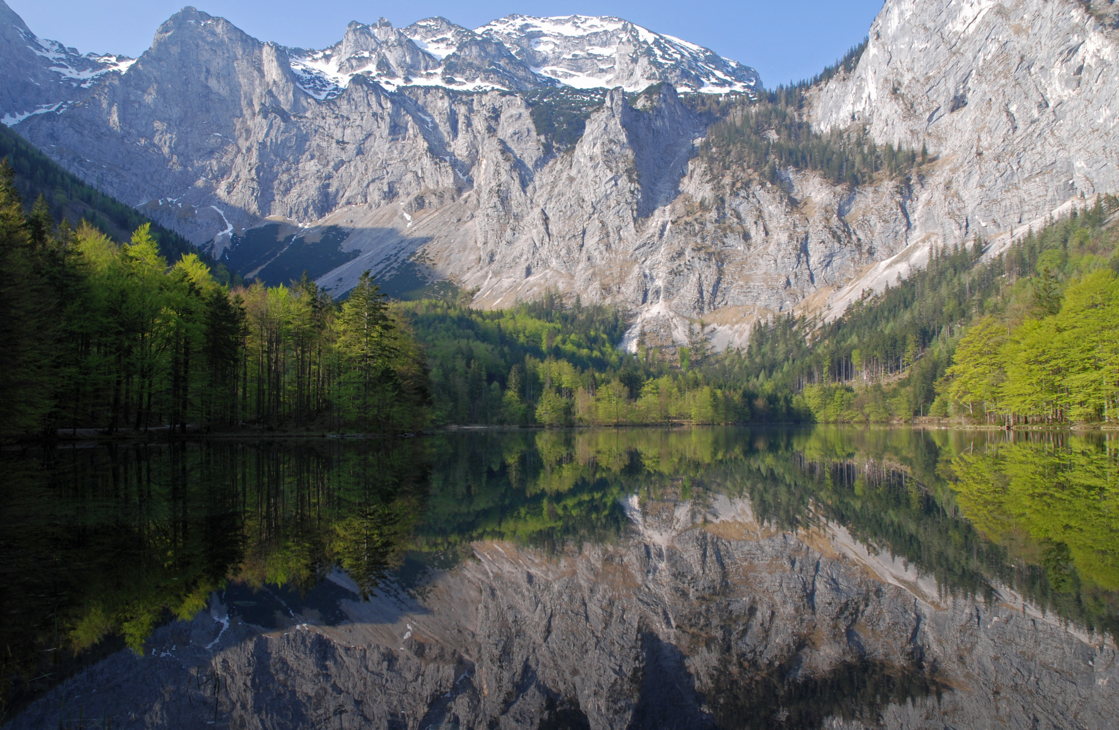 Hinterer Langbathsee with Hoher Spielberg, Höllengebirge, Austria